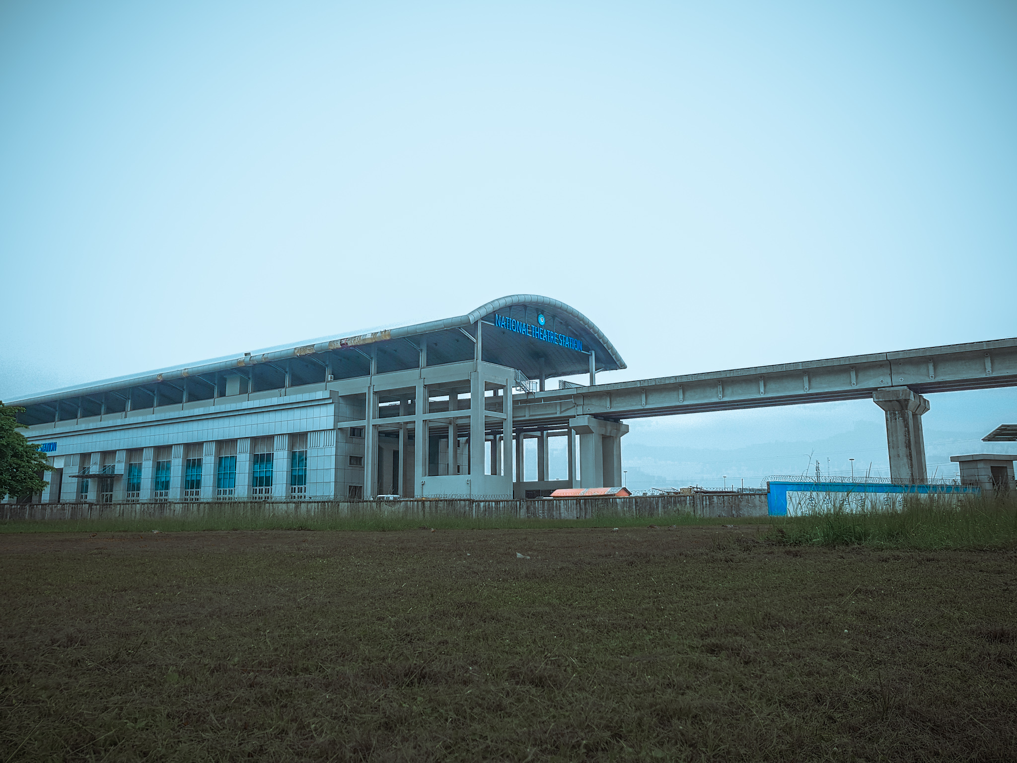 Light Rail Project in Lagos This is an image with the theme "Africa on the Move or Transport" from: Nigeria